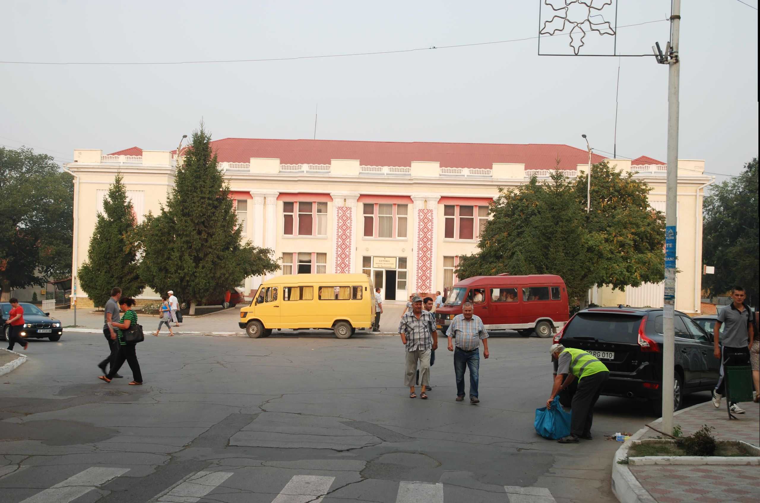 Orhei, cultural center